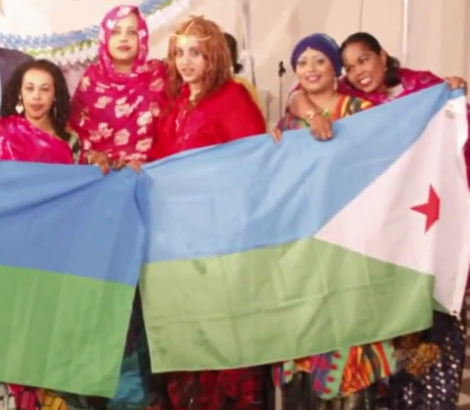 Women at independence day celebrations with the flag of Djibouti.